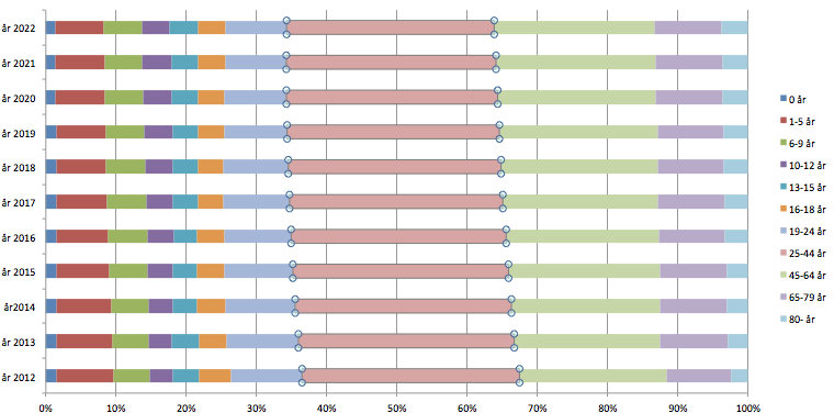 Vårberg, Stockholm